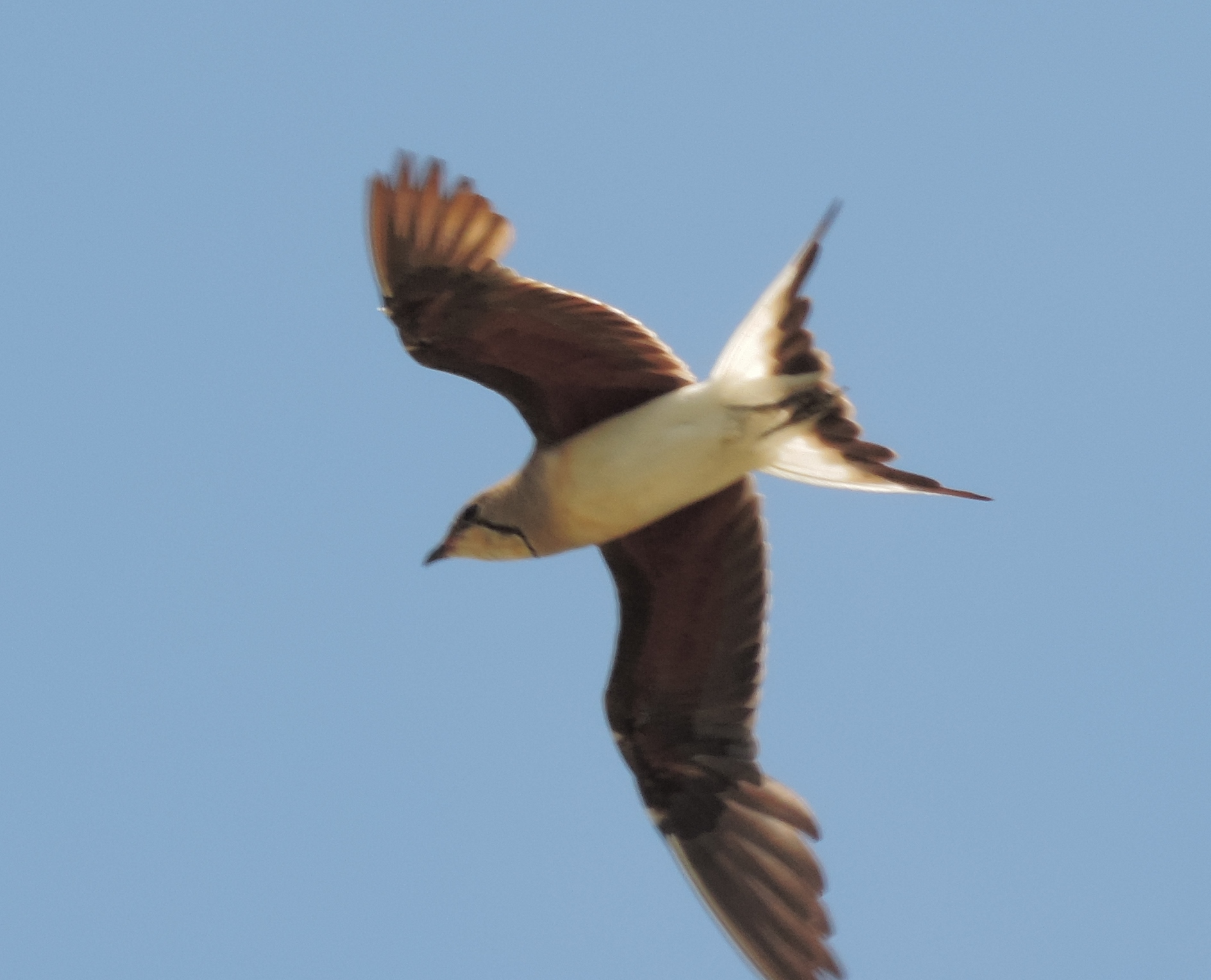 Collared pratincole in flight, photographed in Ócsa, Hungary